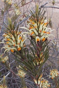 Adenanthos detmoldii Royal Botanic Gardens, Cranbourne photo - Cas Liber -Oct 03